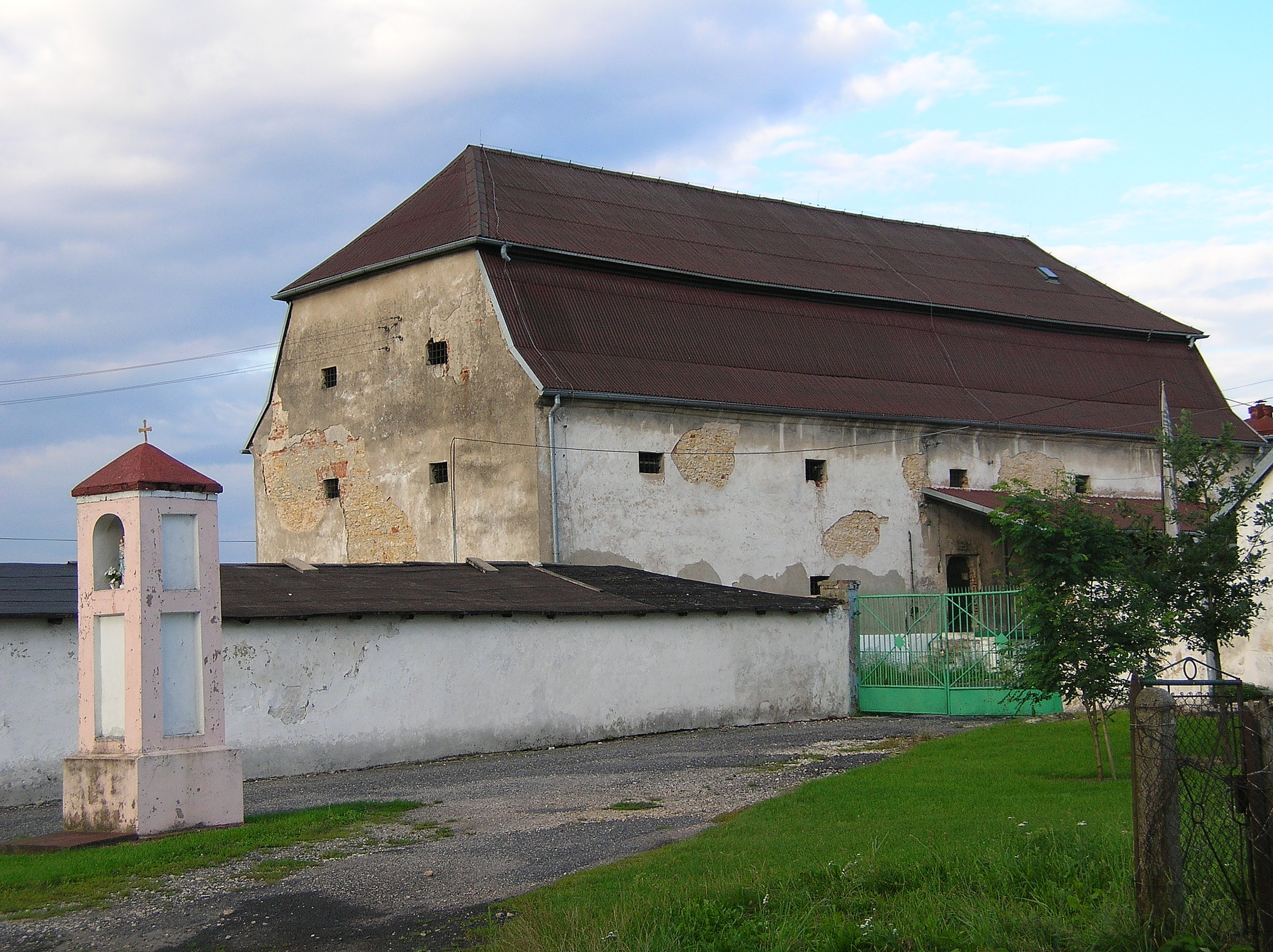 Old granary in Rozmierka